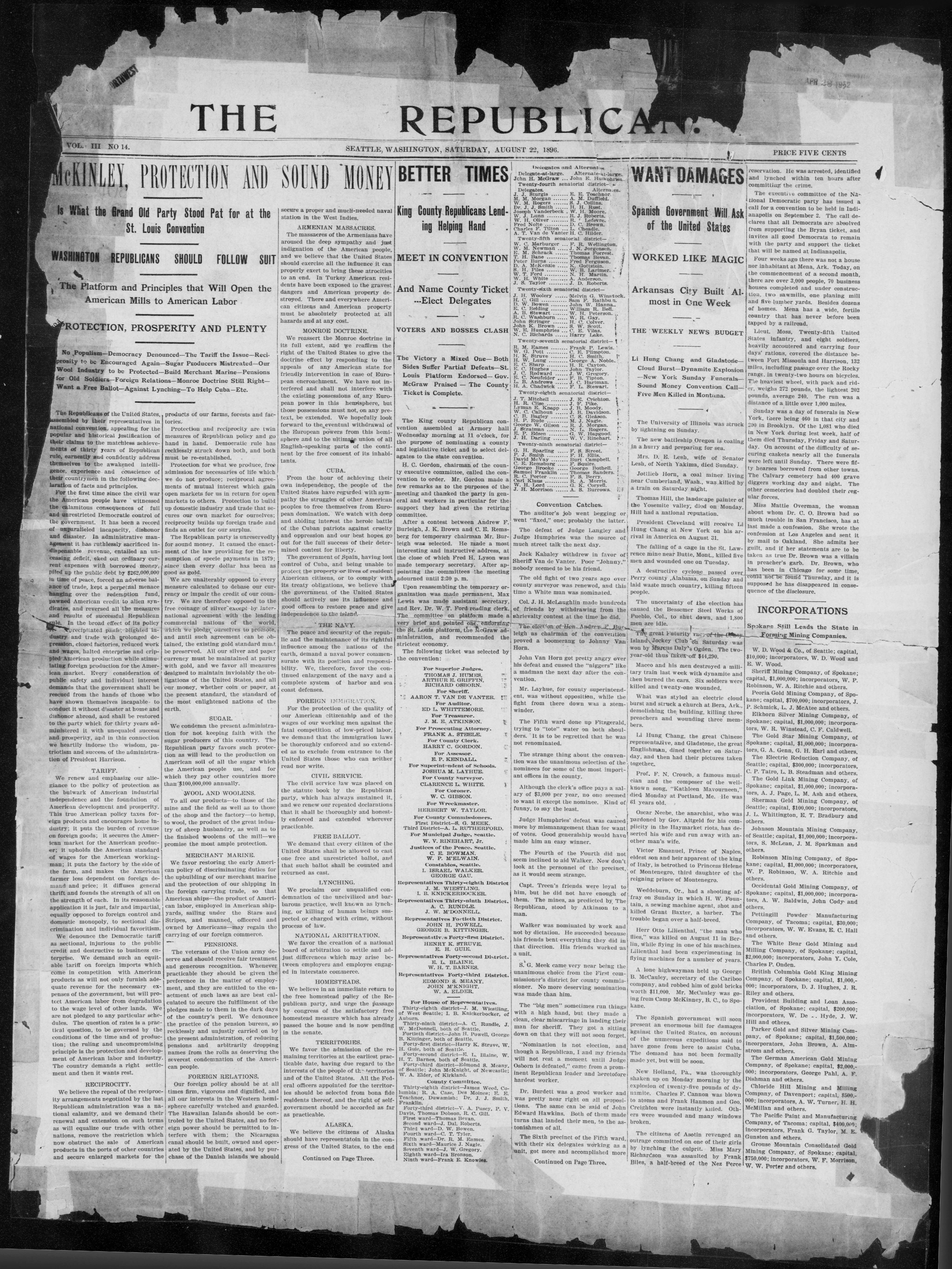 Front page of The Republican of Seattle, Washington from August 22, 1896. The Republican, later known as The Seattle Republican, was published by Horace R. Cayton Sr. (1859–1940), Seattle's first commercially successful African American newspaper. Headlines relate to the upcoming national and state elections of 1896.